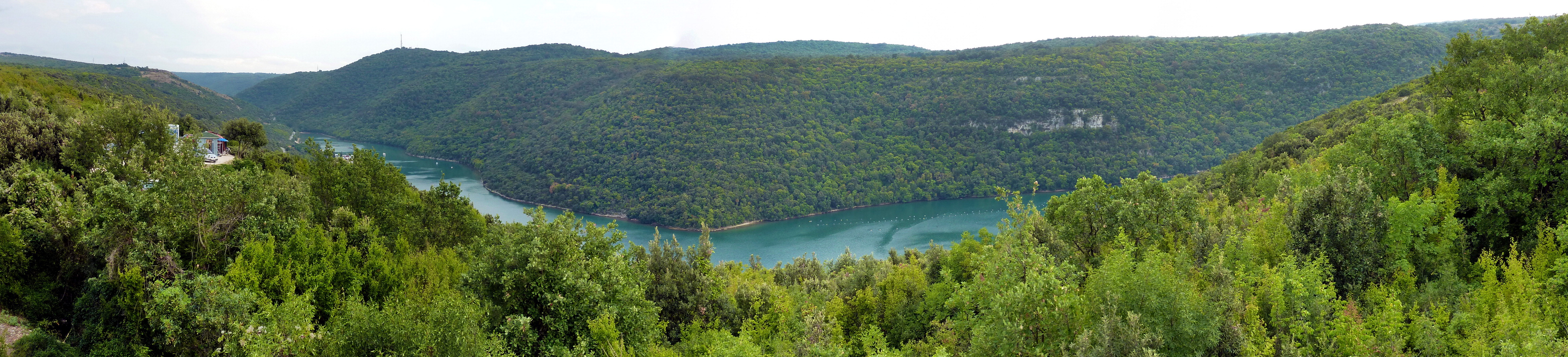 Panoramic view on the Lim canal and fjord as seen from an observation platform.